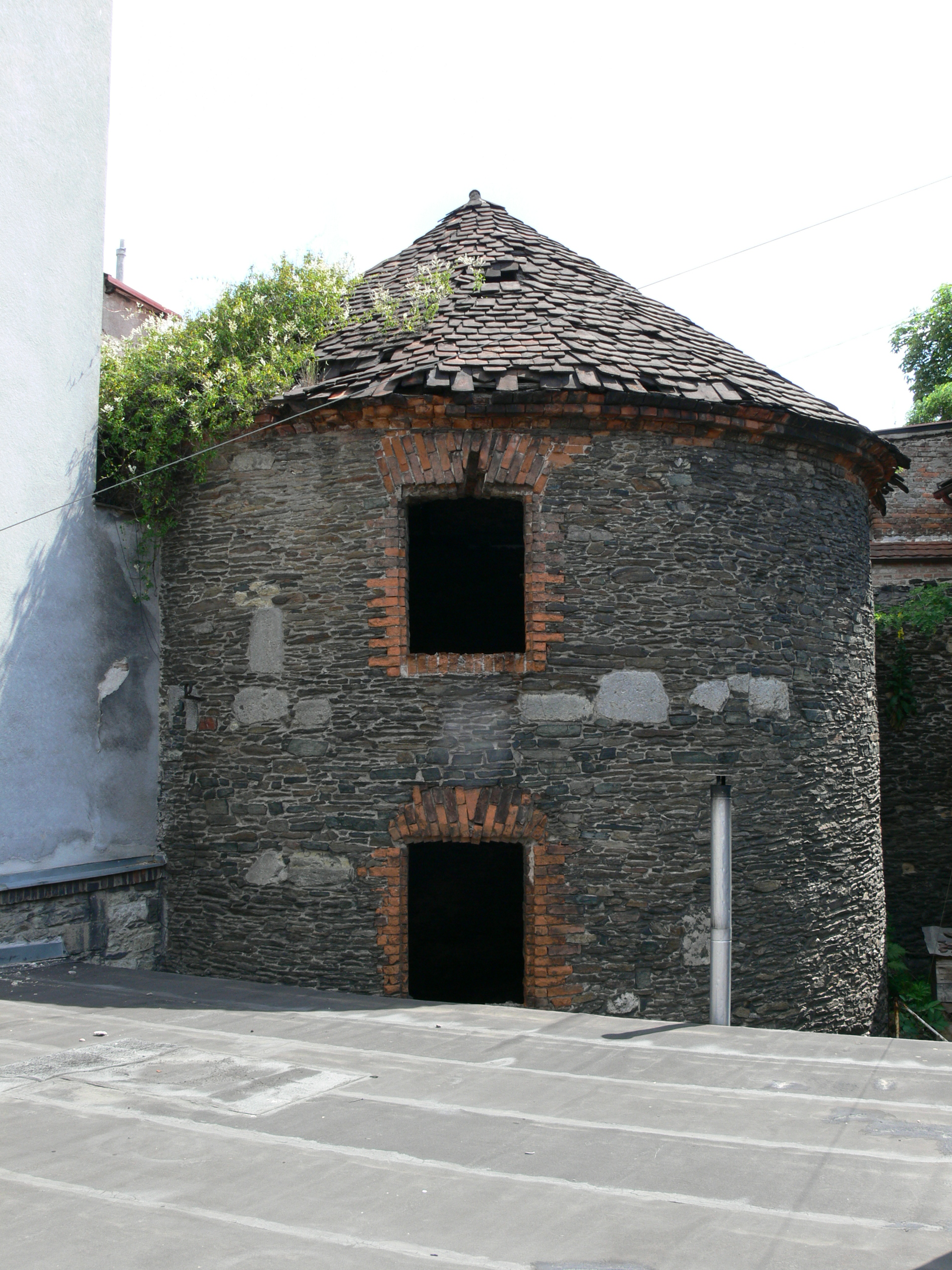 A bastion of the medieval fortification in Kolín, CZ.